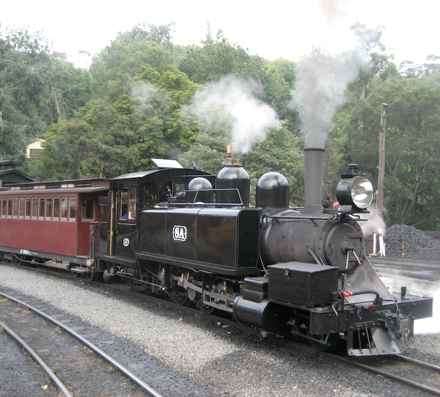 Locomotive 8A at Belgrave on the Puffing Billy railway, Australia